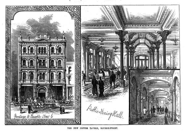 Melbourne Coffee Palace lithograph with interior views, 1881